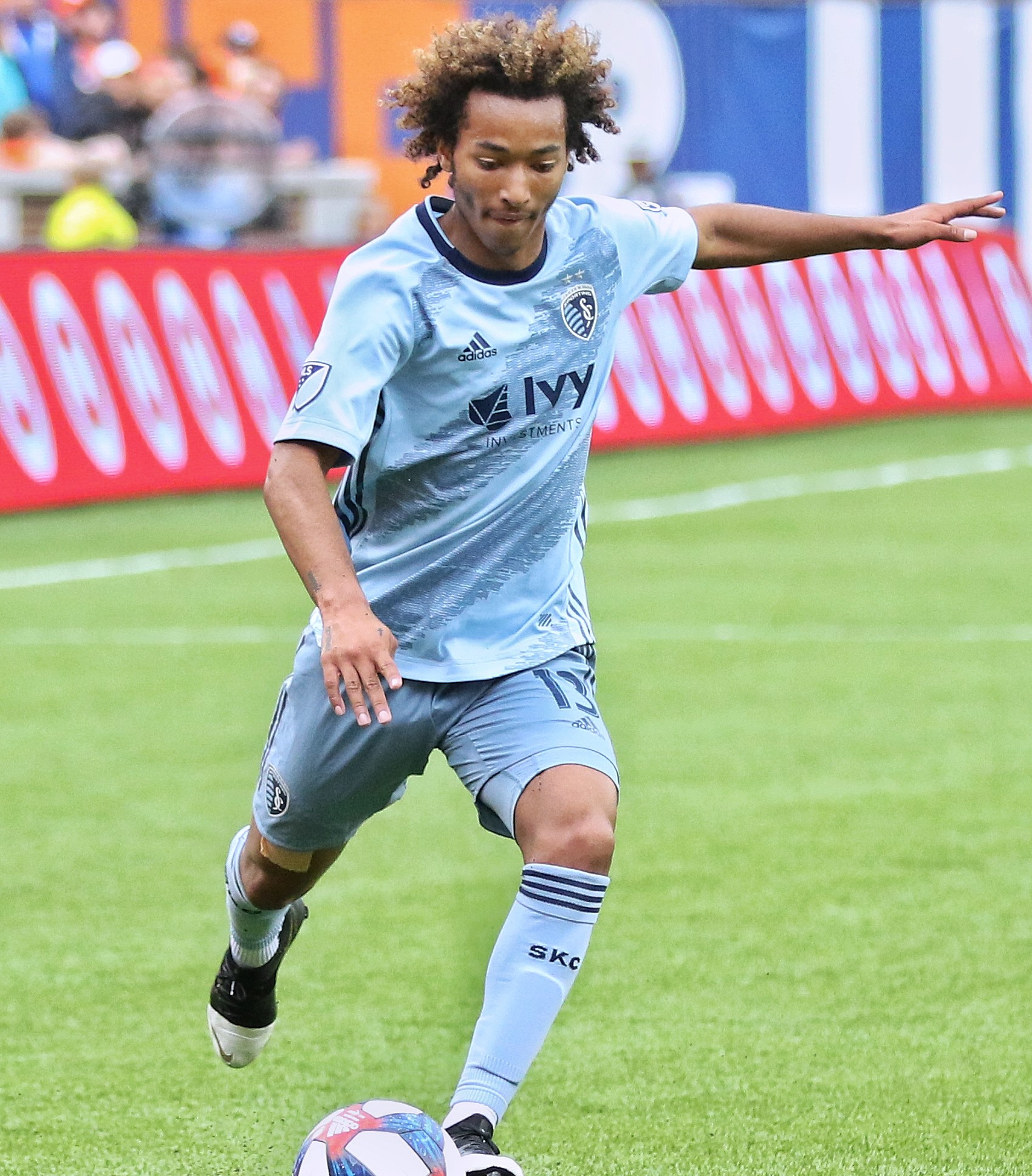 Gianluca Busio playing for Sporting Kansas City at Major League Soccer on April 7, 2019.